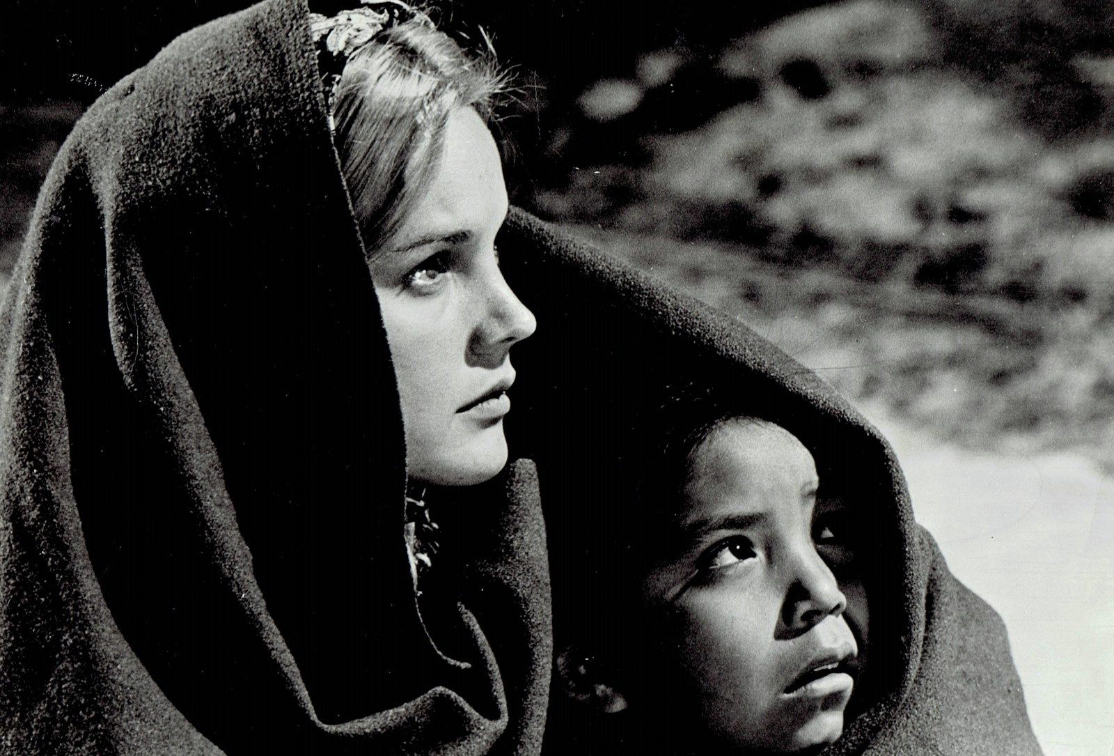 Carroll Baker and Nonomba "Moonbeam" Morton in Cheyenne Autumn